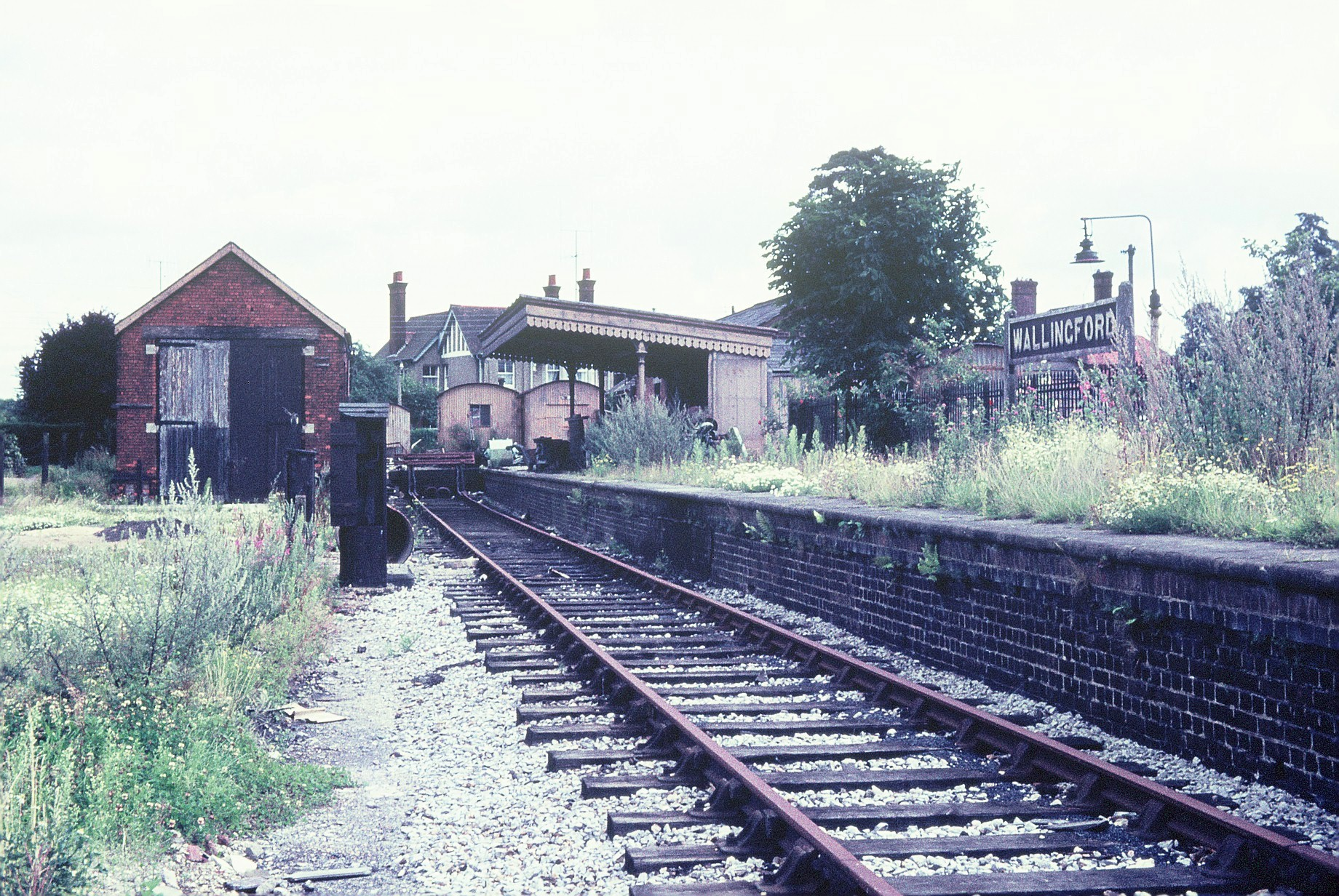 Wallingford railway station post-closure.